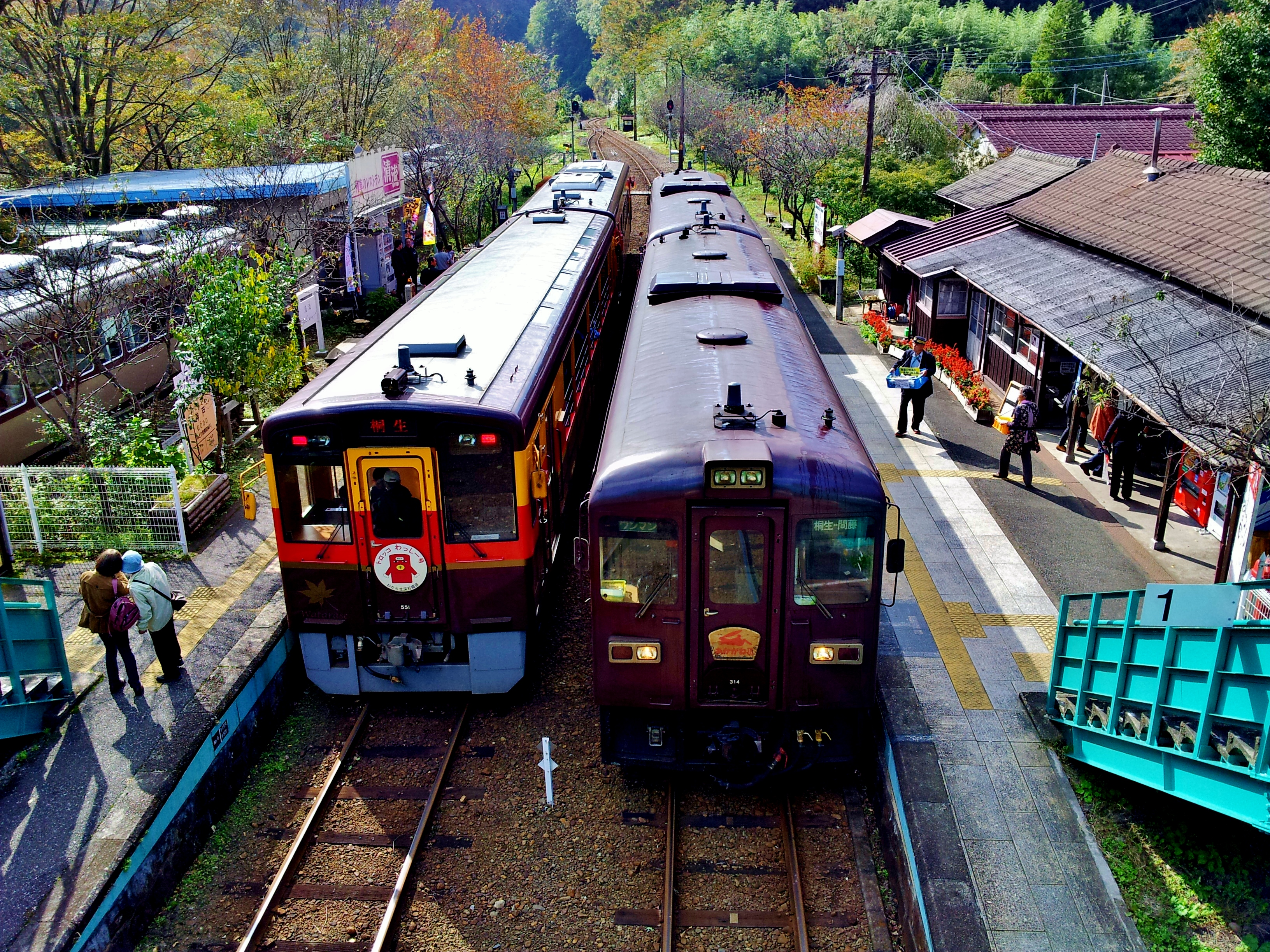 Trains stopping at Gōdō Station